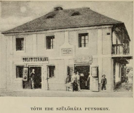 The house where Tóth Ede was born